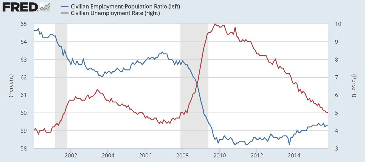 The graph shows the employment-population ratio and unemployment rate for the US since 2000